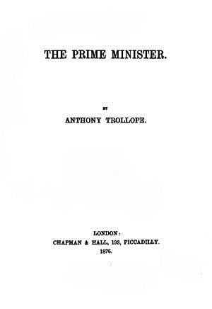 Title page from Anthony Trollope's The Prime Minister